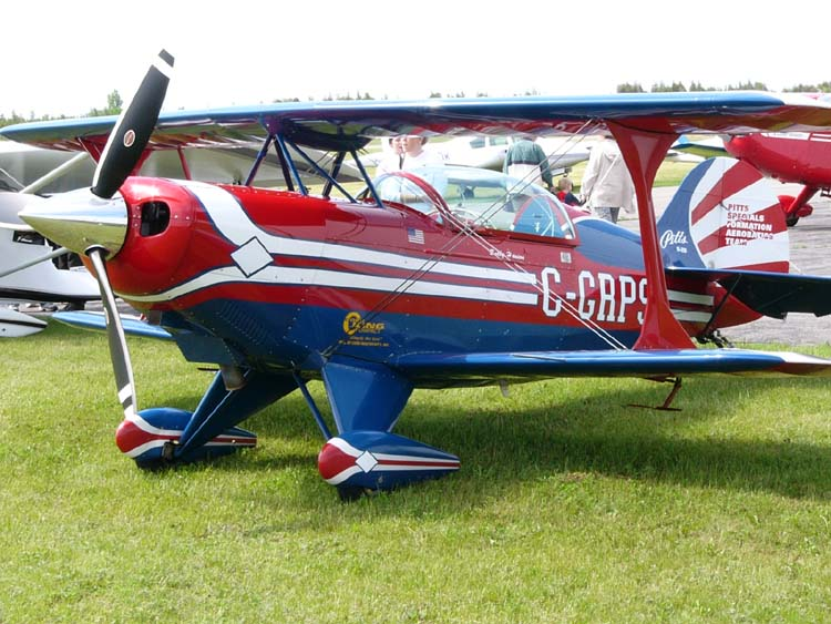 Christen Industries S-2B Pitts Special belonging to the Pitts Specials Formation Aerobatic Team. I took this photo at Smiths Falls Ontario on 4 June 2006